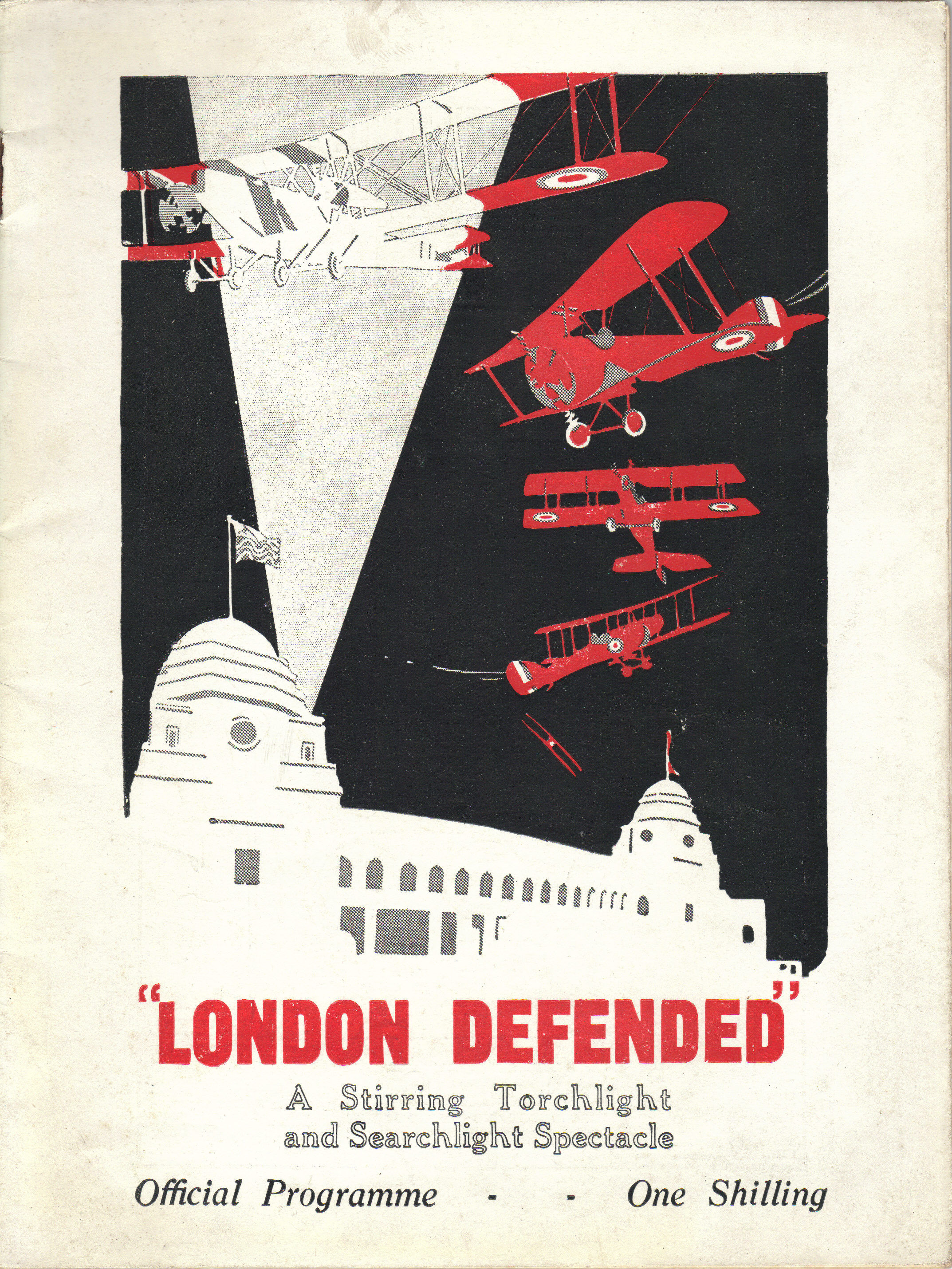 London Defended Torchlight and Searchlight spectacle, The Stadium Wembley May 9 to June 1, 1925